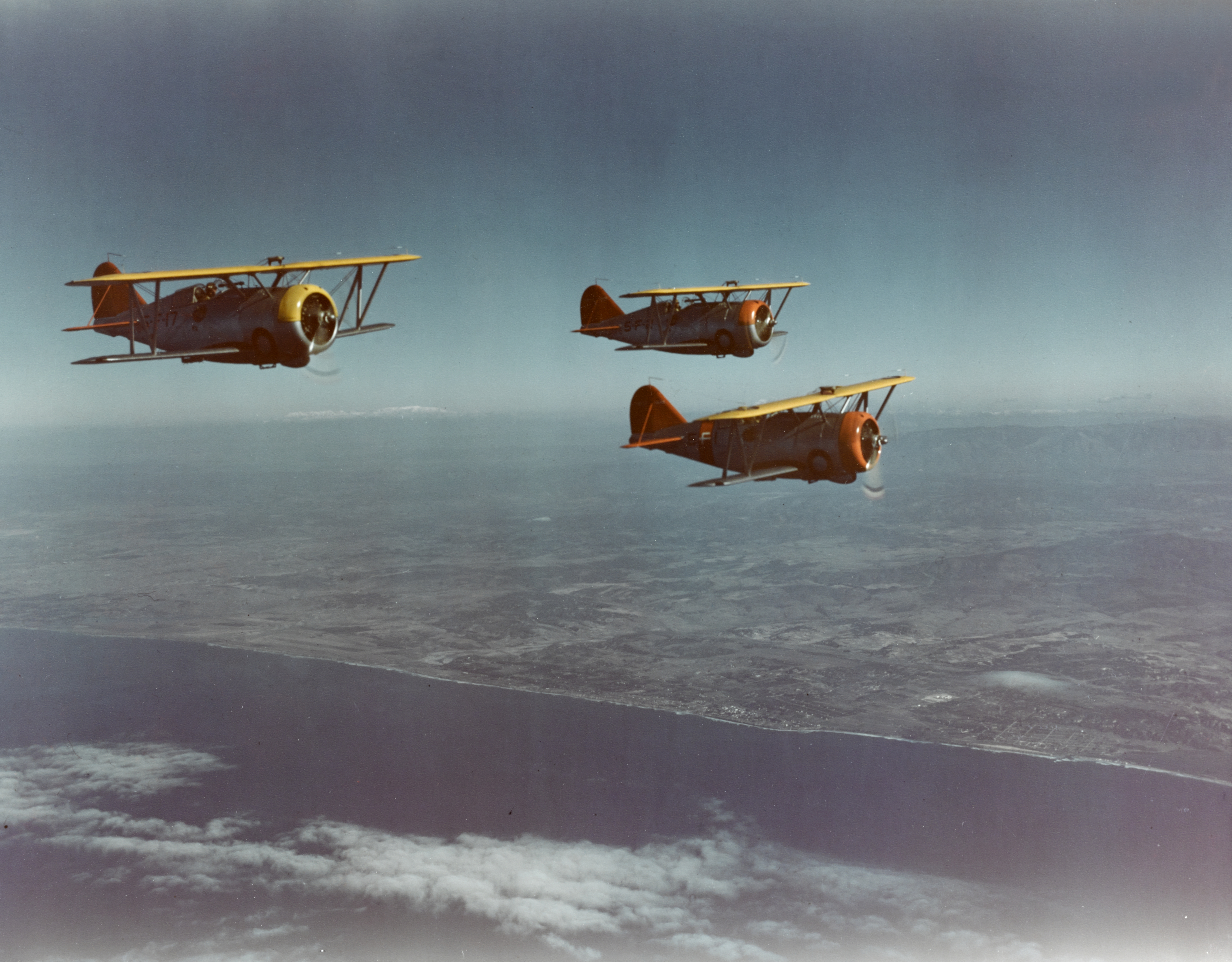 U.S. Navy Grumman F3F-3 fighters from Fighting Squadron 5 (VF-5) from the aircraft carrier USS Yorktown (CV-5) in a three-plane formation over the southern California coast, circa 1939-40.